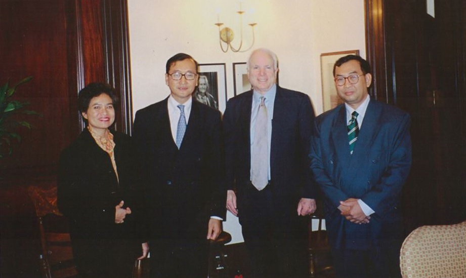 A photo from senator John McCain to Cambodian opposition leader Sam Rainsy and his wife Tioulong Saumura with the caption "To Rainsy & Saumura, with admiration, appreciation & affection. Best wishes, John McCain."